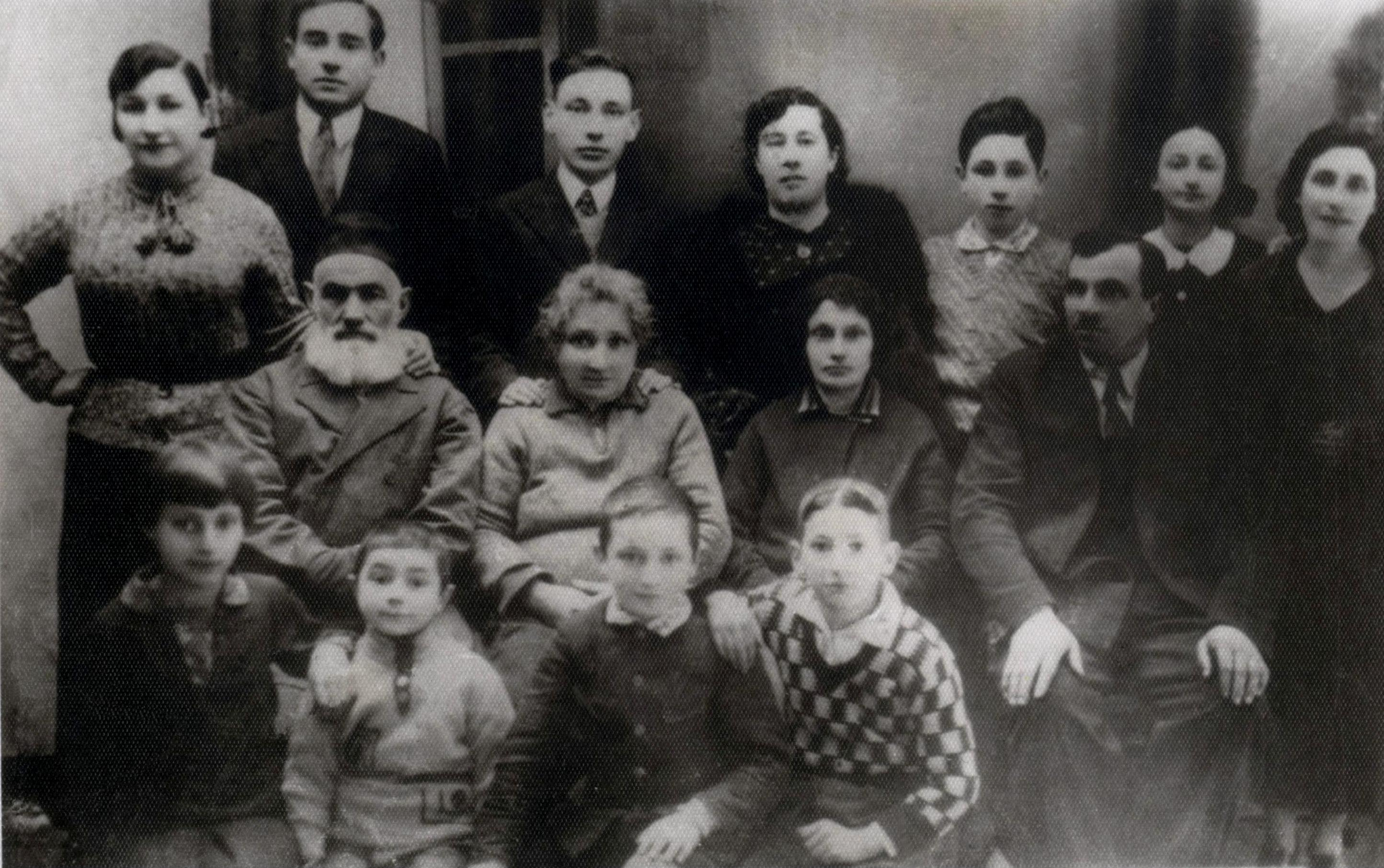 Shimon Peres, standing third from right, with members of his family some time between 1920-1930.